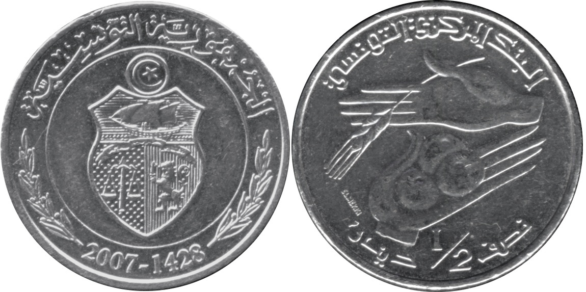 half Tunisian dinar, 2007, Tunisia